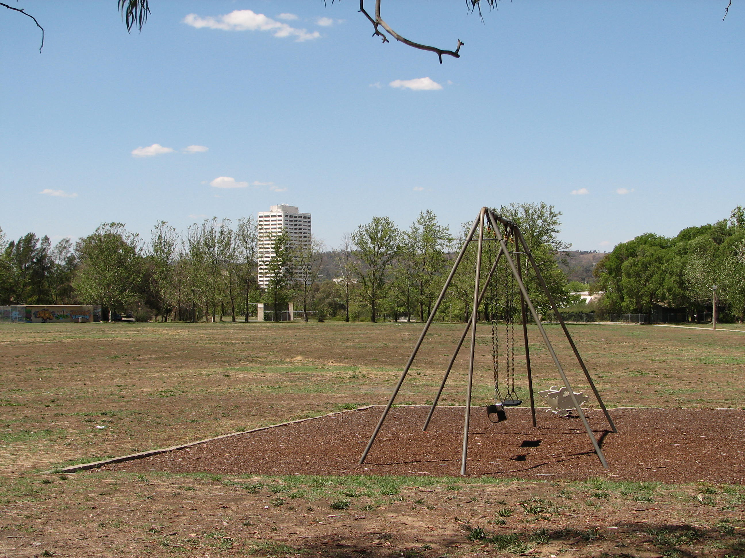 Looking across the neighborhood oval in Chifley, Australian Capital Territory, to buildings in Phillip. Taken by me - Tim Malone - on 20th January 2007.